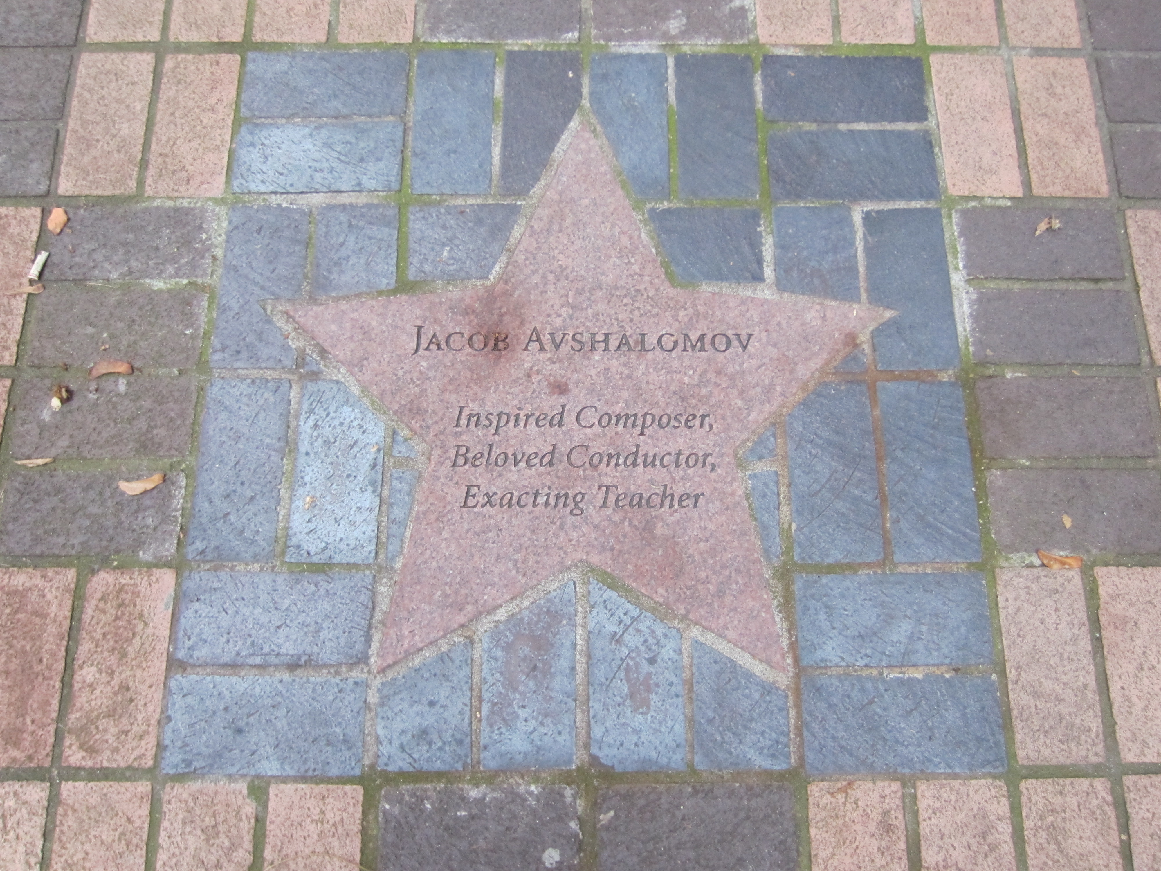 Star for Jacob Avshalomov at the Main Street Walk of Stars in downtown Portland, Oregon